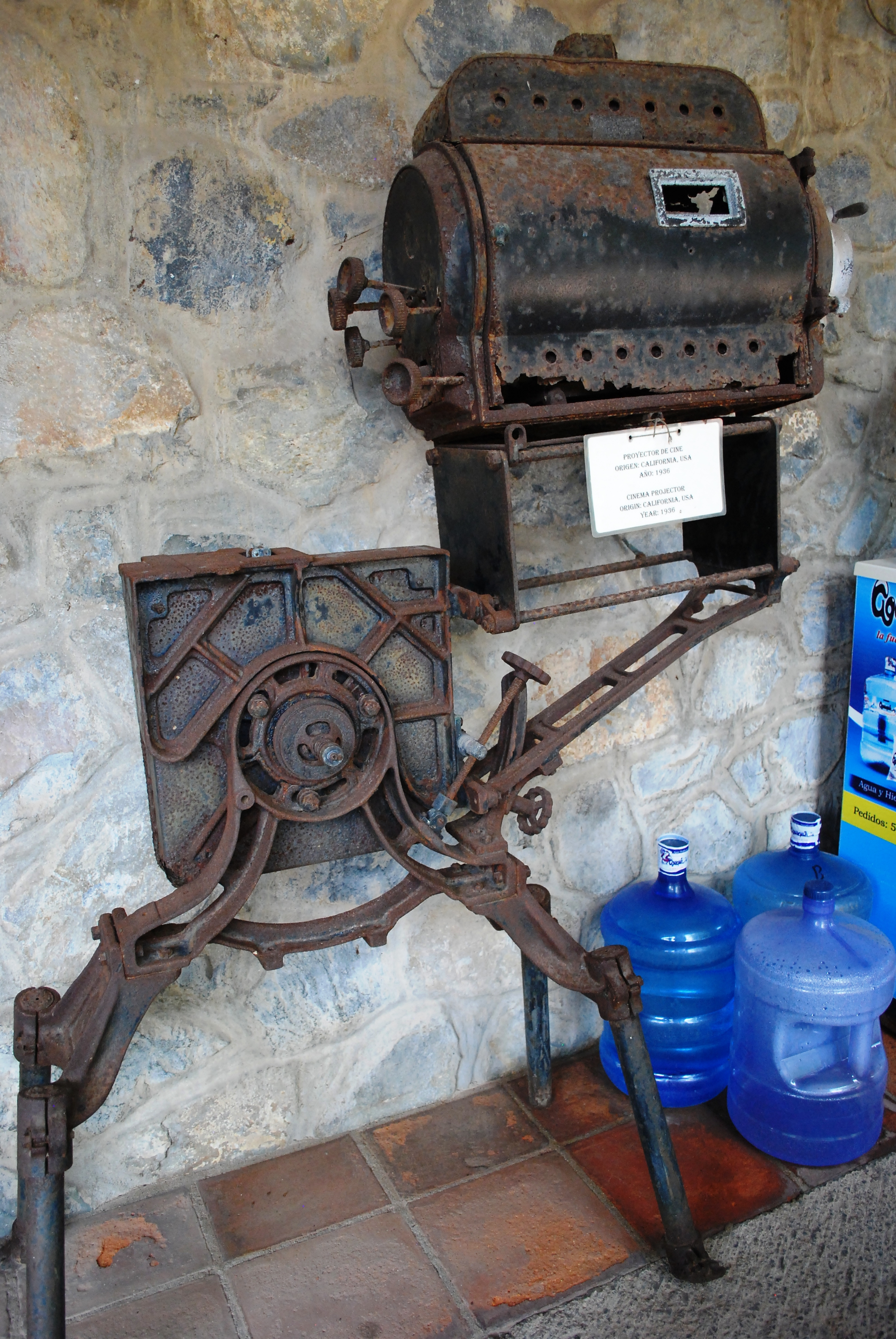 Movie projector from 1936 on display at the Museo Arqueologico de la Costa Grande in Zihuatanejo, Mexico